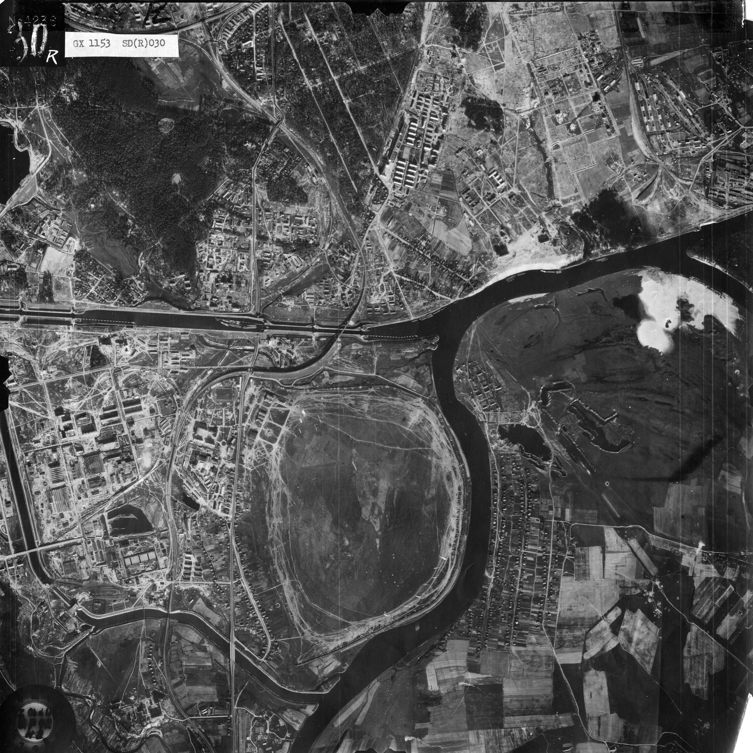 Tushino (Russia), .